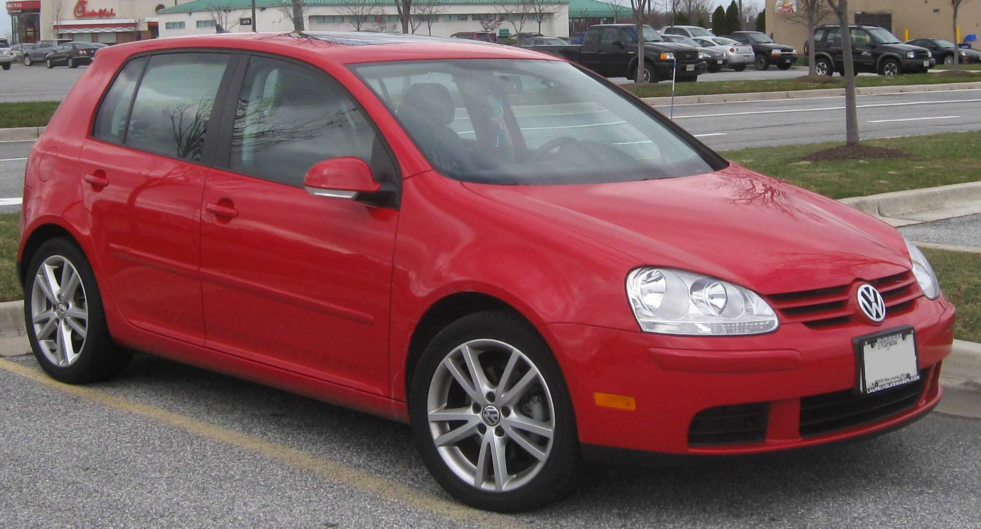 2007-2009 Volkswagen Rabbit photographed in Laurel, Maryland, USA.